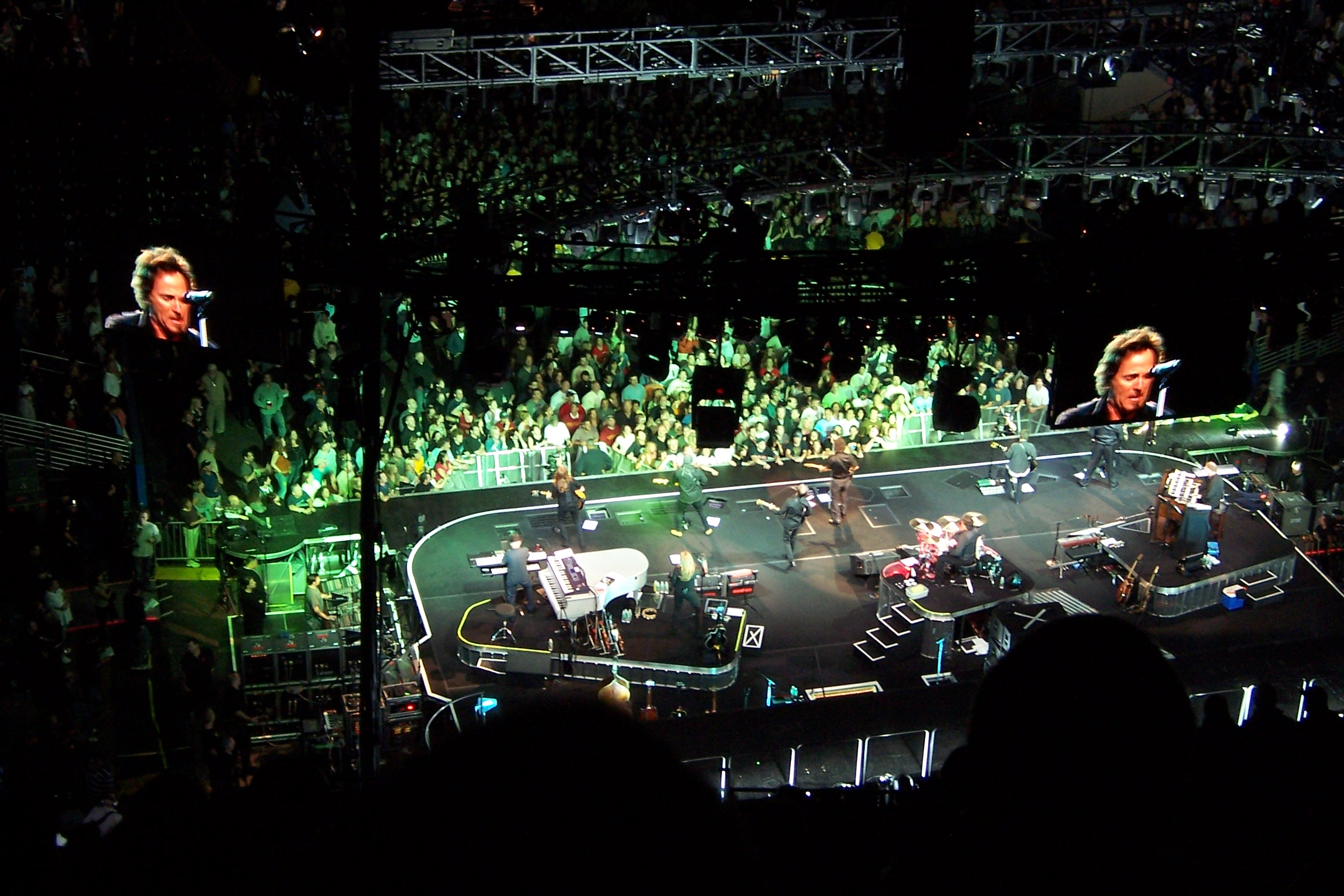 Bruce Springsteen's 2007 Tour opener at Hartford Civic Center. Stage view as first song "Radio Nowhere" is played.